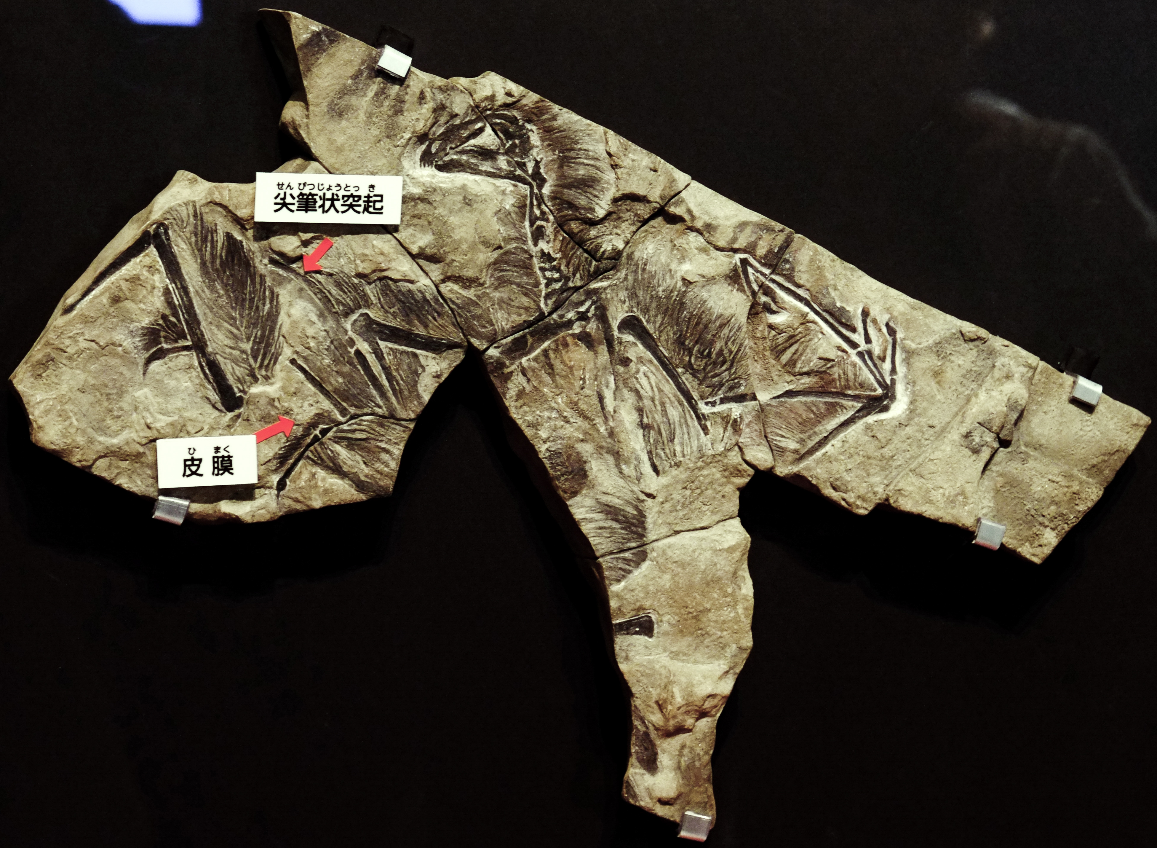 Yi qi fossil